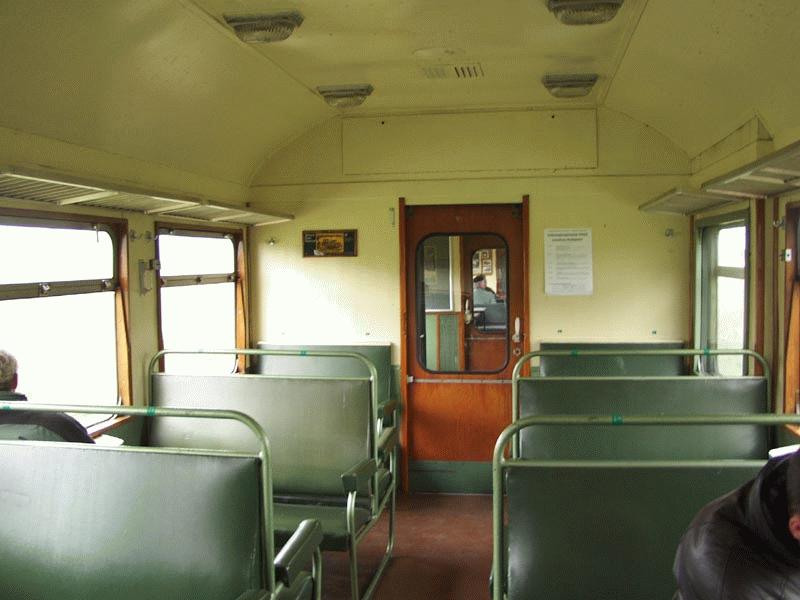 interior view of a DR "Reko" passenger rail car (Type Bag) as part of a historic train.